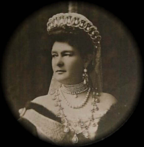 Portrait of Grand Duchess Maria Pavlovna of Russia (1854-1920)